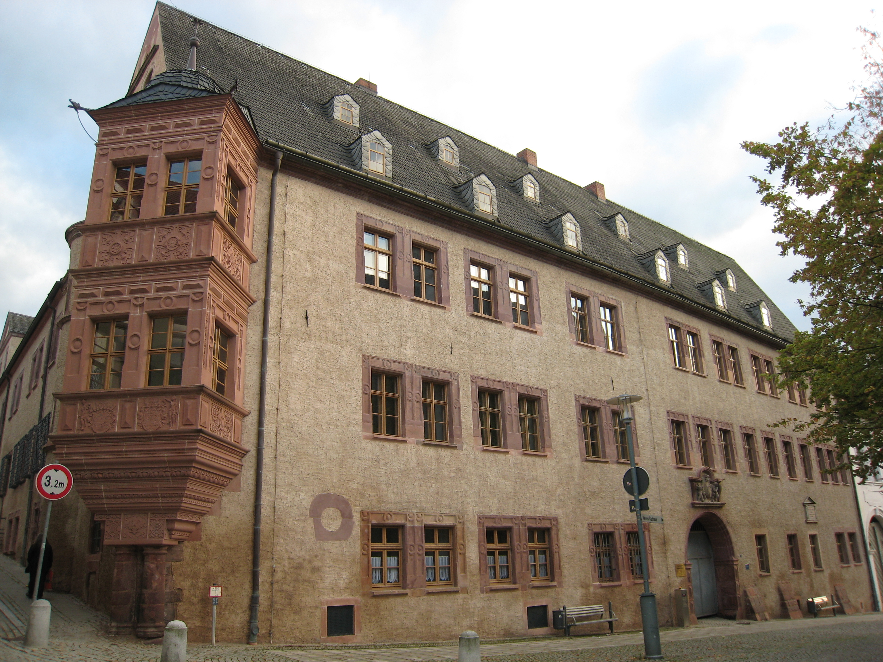 Neues Schloss Sangerhausen